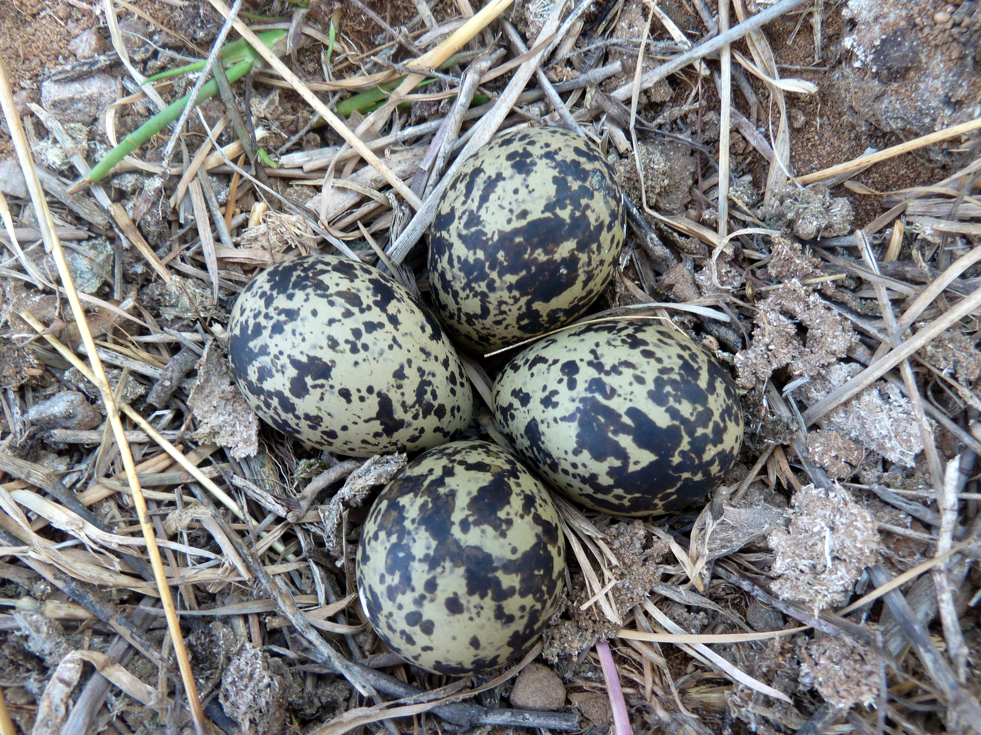 Clutch of a Blacksmith Lapwing at Little Eden, De Tweedespruit conservancy, Gauteng